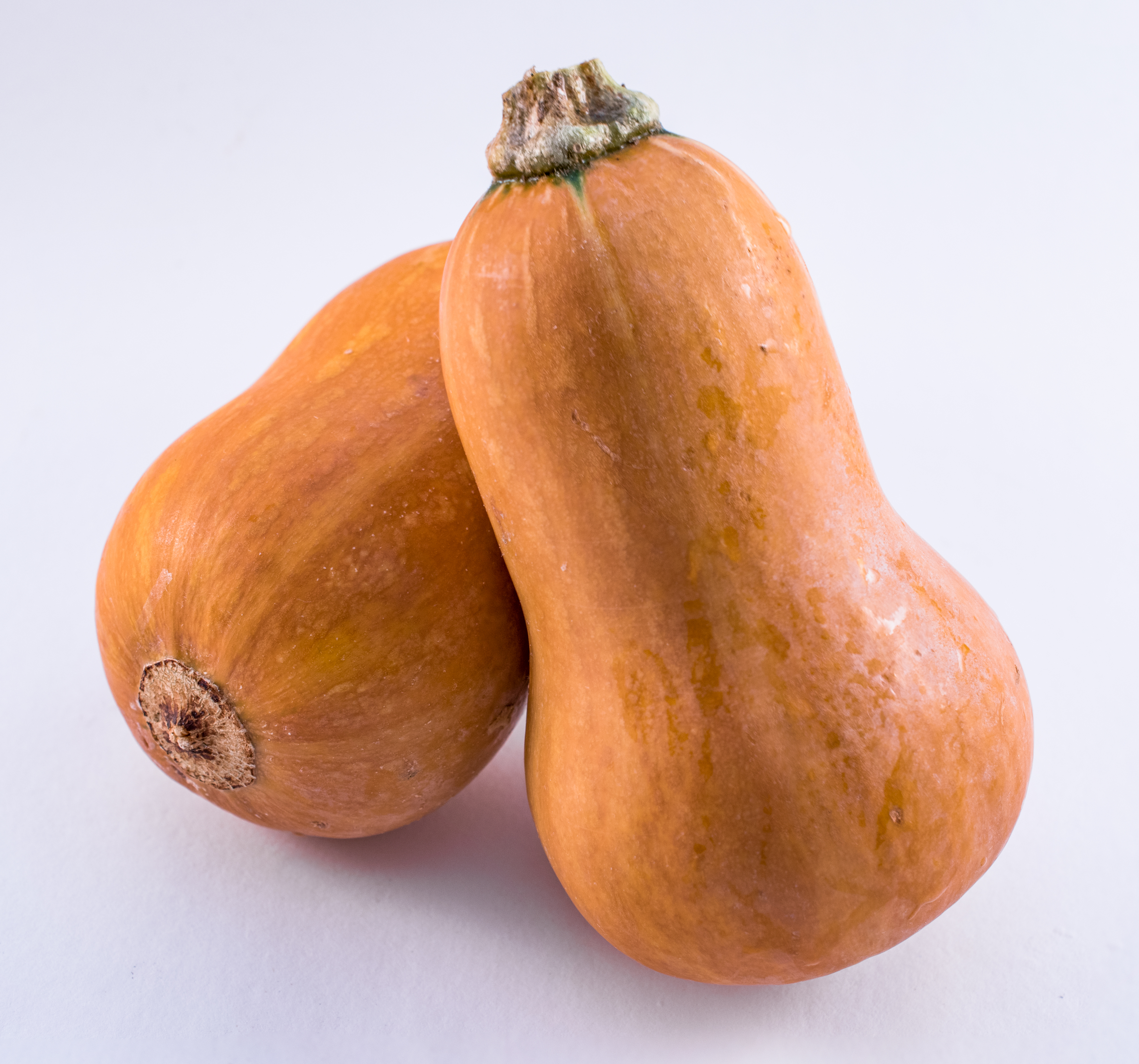 Whole raw honeynut squash.